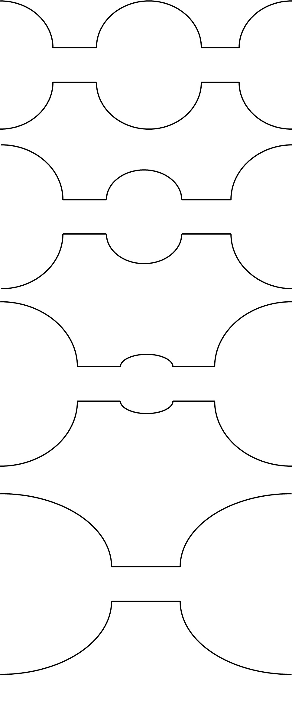 Draining phenomenon in bead string structure